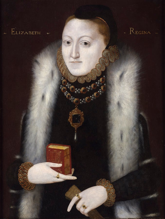 Elizabeth I of England, oil on panel, 23 ⅛ x 17 ⅜ inches; 59 x 44 cm. One of a handful of known versions of this likeness, called as the 'Clopton' type, after the previous location at Clopton Hall of the largest of the four examples.